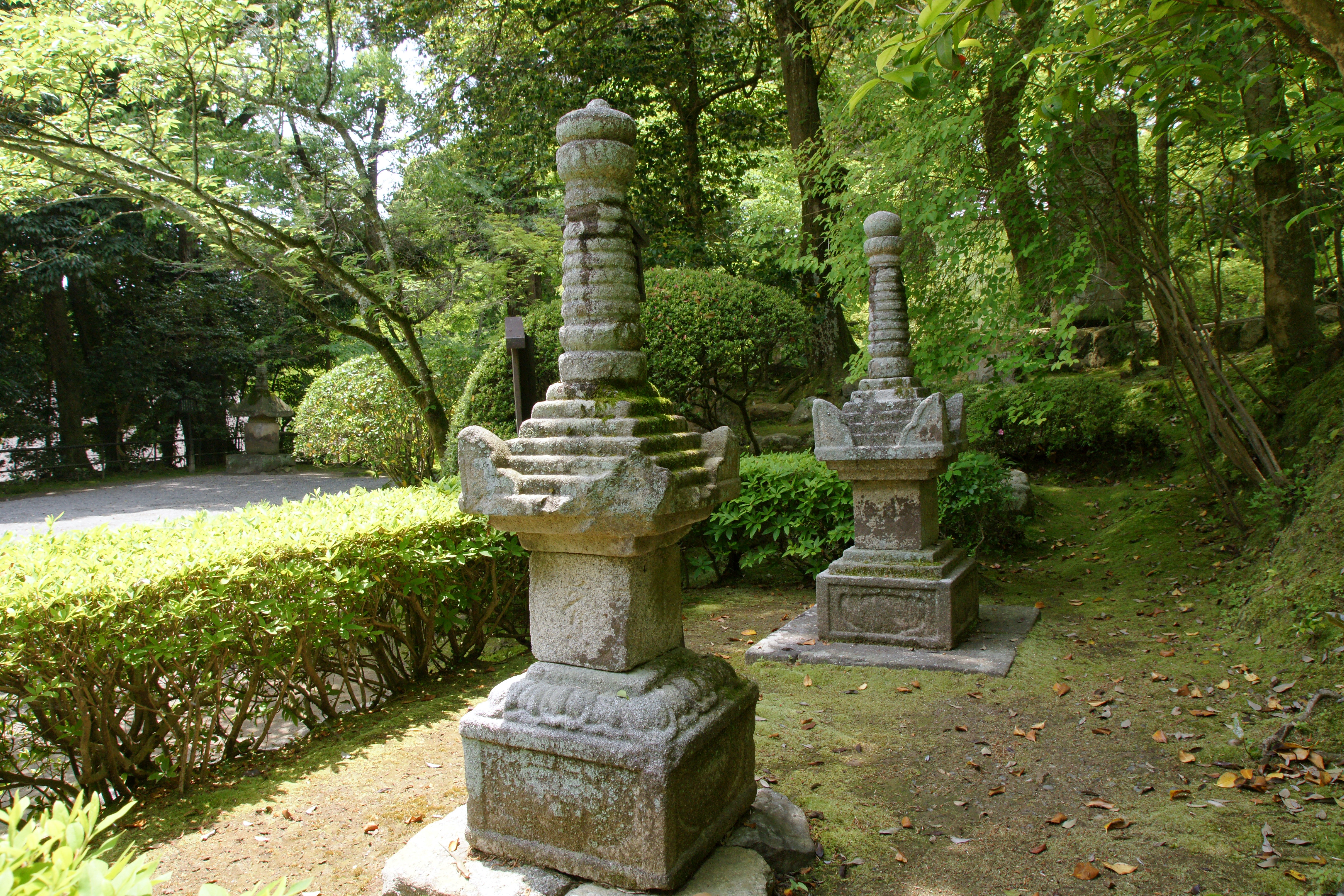 Ishiyama-dera in Otsu, Shiga prefecture, Japan